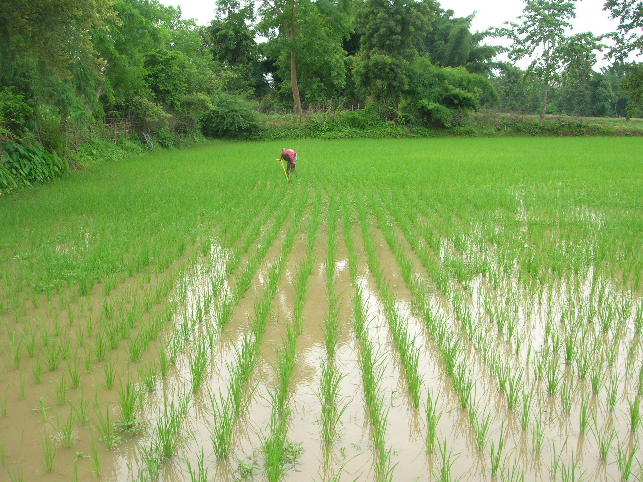 SRI farming in Chhattisgarh India photos by Jacob